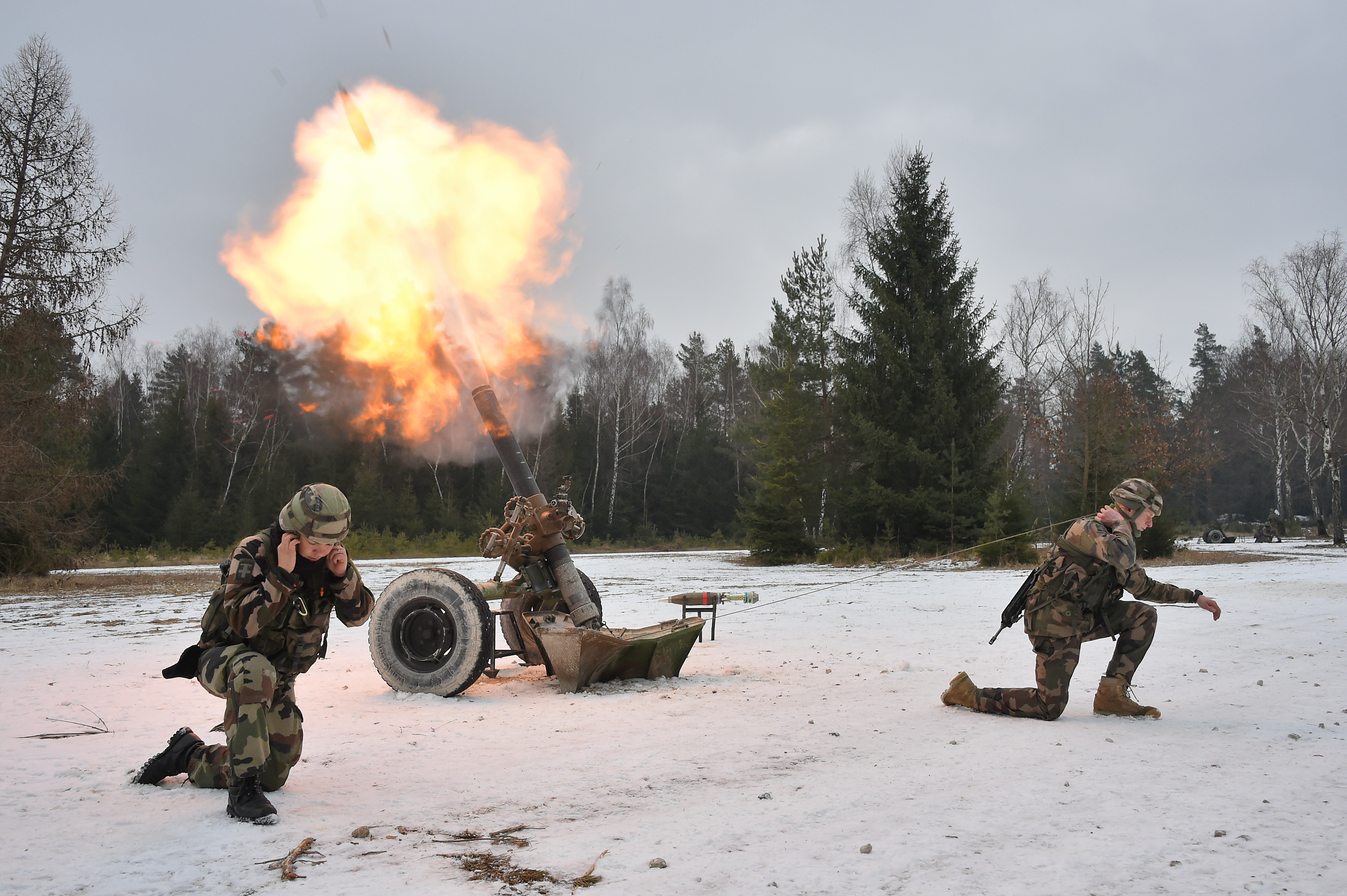 French soldiers conduct fire missions with a 120mm mortar as part of Exercise Dynamic Front 18 at the U.S. Army’s Grafenwoehr Training Area, Germany, March 5, 2018. The Exercise includes approximately 3,700 participants from 26 nations. Dynamic Front is an annual U.S. Army Europe (USAREUR) exercise focused on the interoperability of U.S. Army, joint service and allied nation artillery and fire support in a multinational environment, from theater-level headquarters identifying targets to gun crews pulling lanyards in the field. (U.S. Army photo by Gertrud Zach)